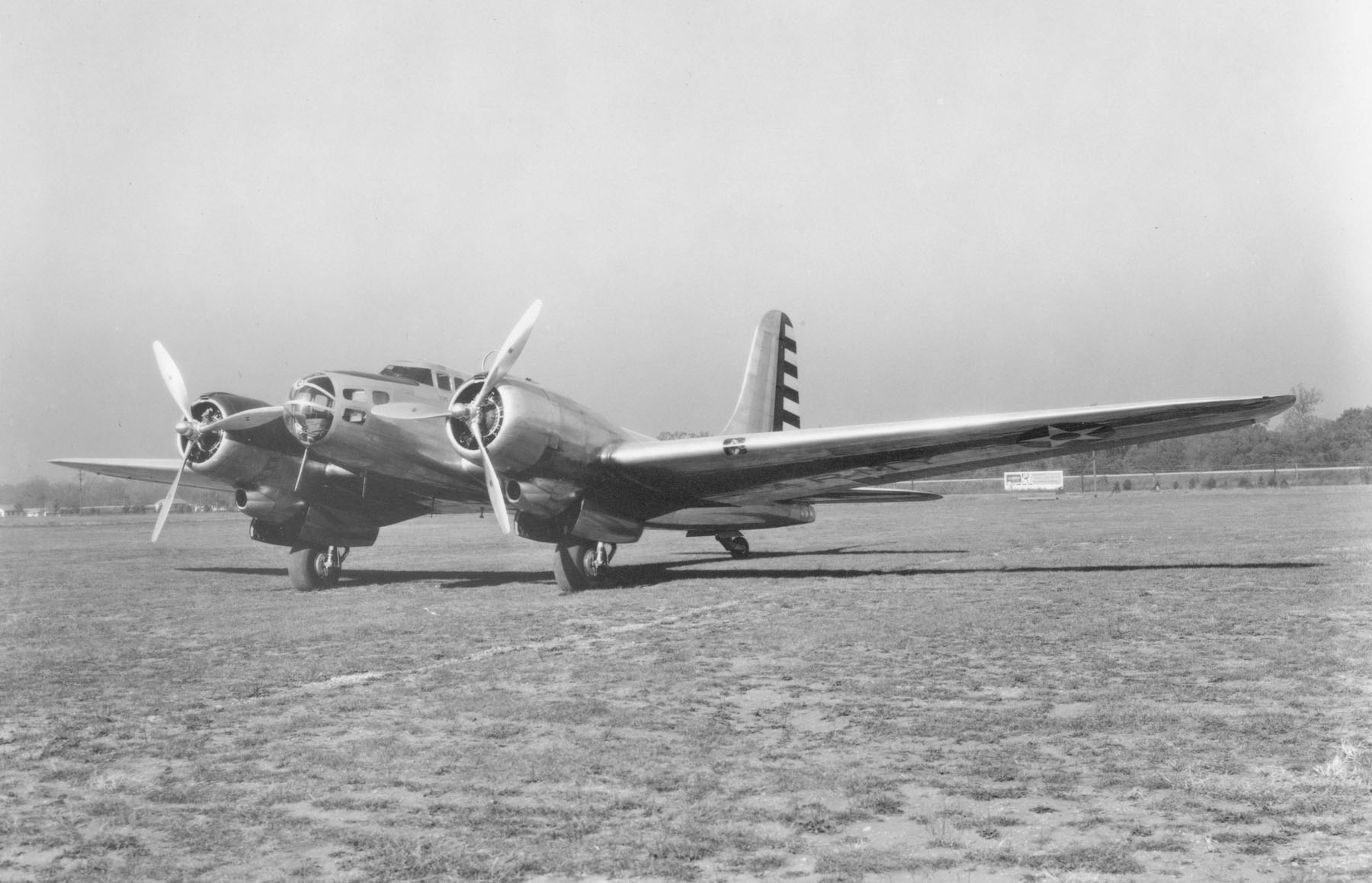 Douglas B-23 of the USAAF